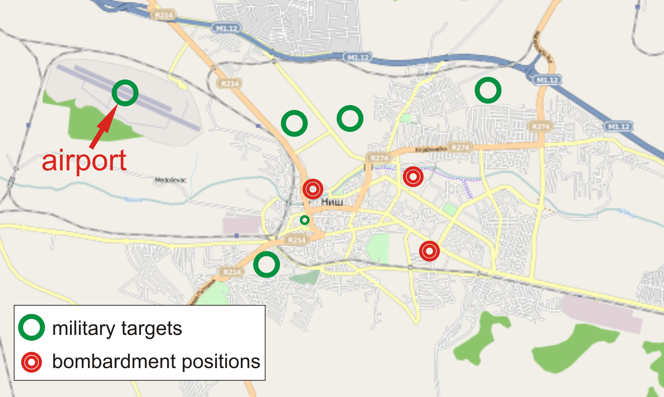 Bombardment of Nis on 7. May 1999 with cluster bombs (english)